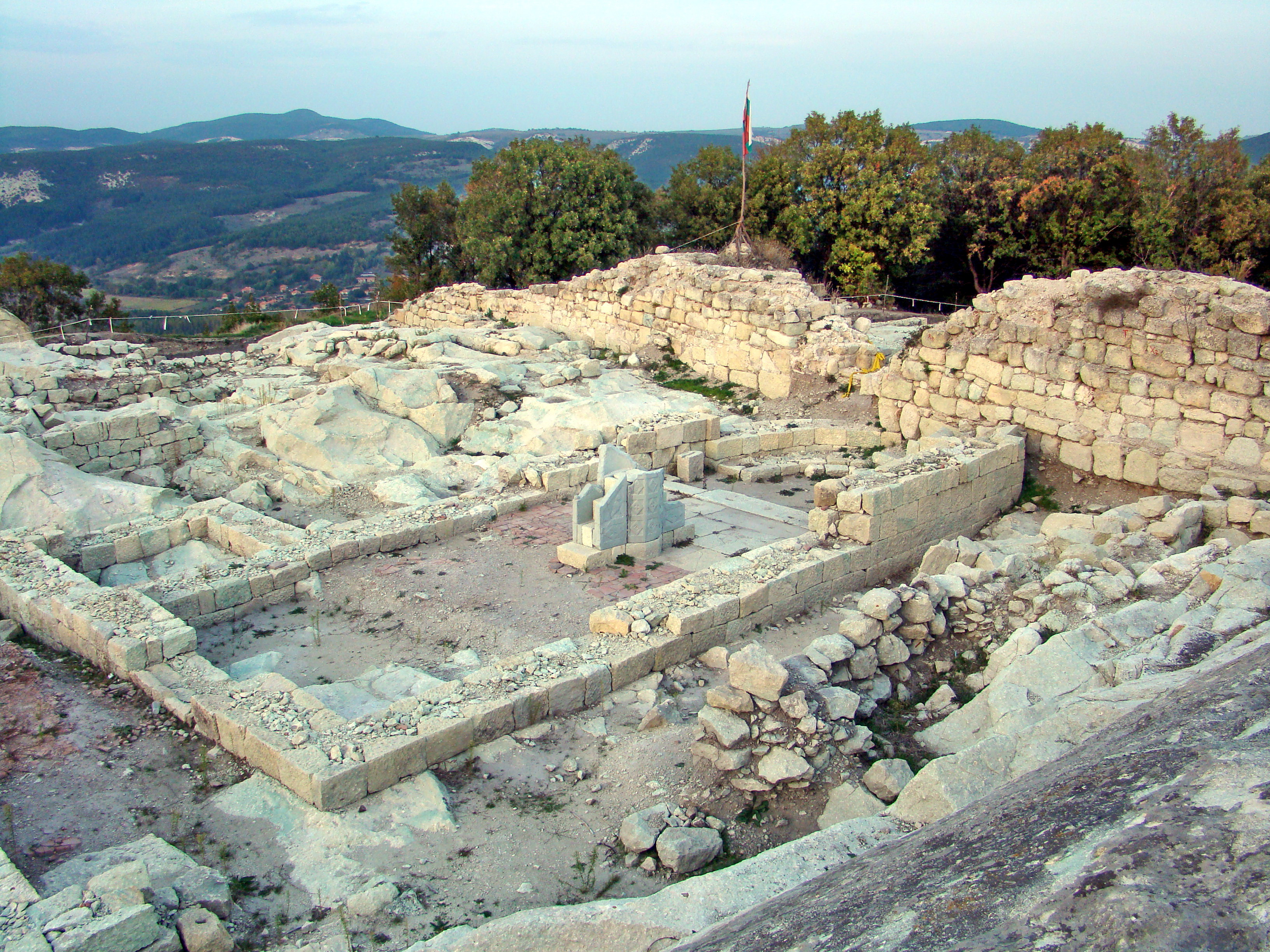 Part of the archeology excavations on top of Perperikon hill